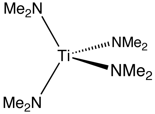 structure of Ti(NMe2)4